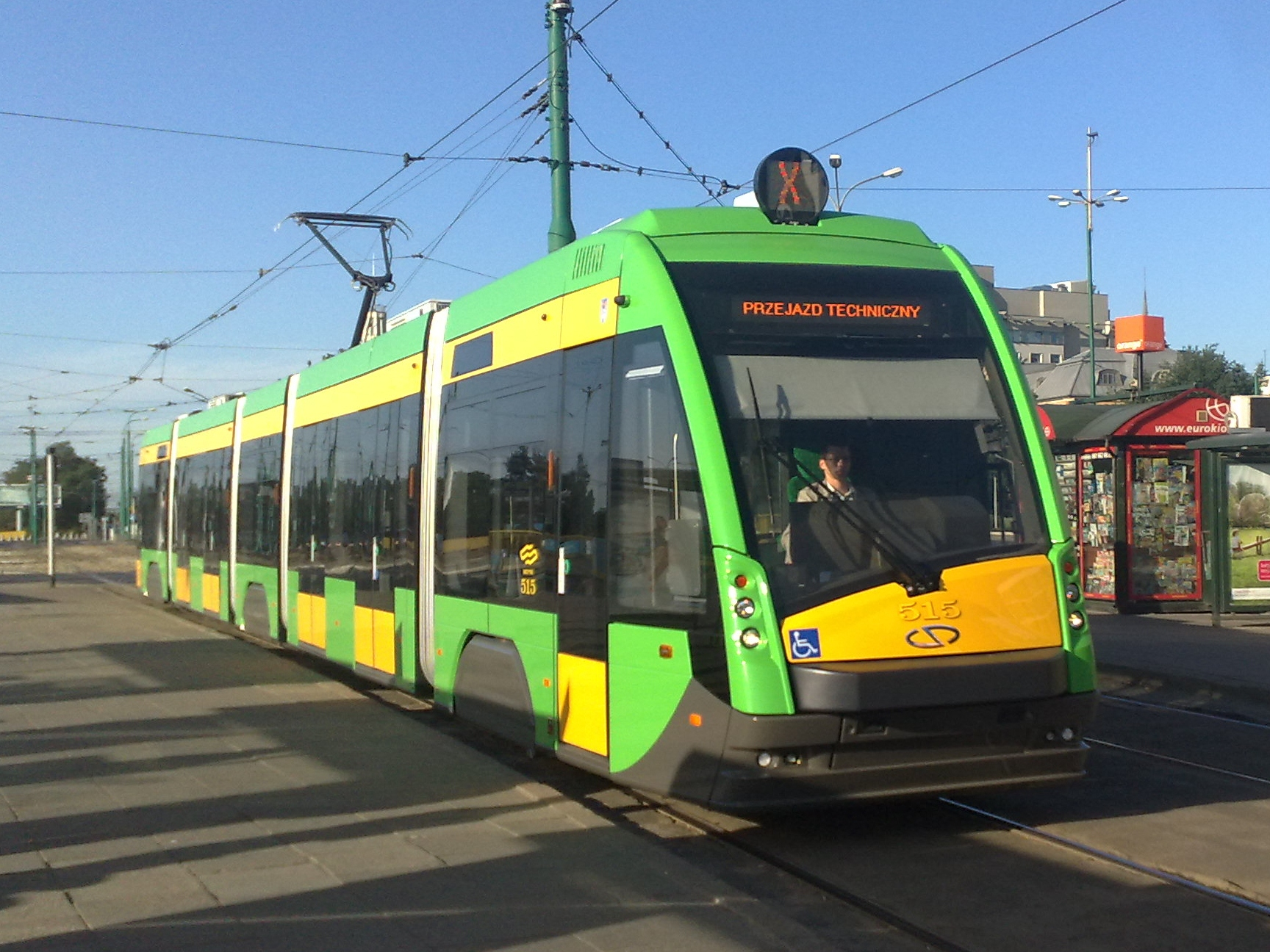 Solaris Tramino S105, new fully low-floor tram (#515) in Poznań, Poland. The first of the ordered 45. Built 2011.